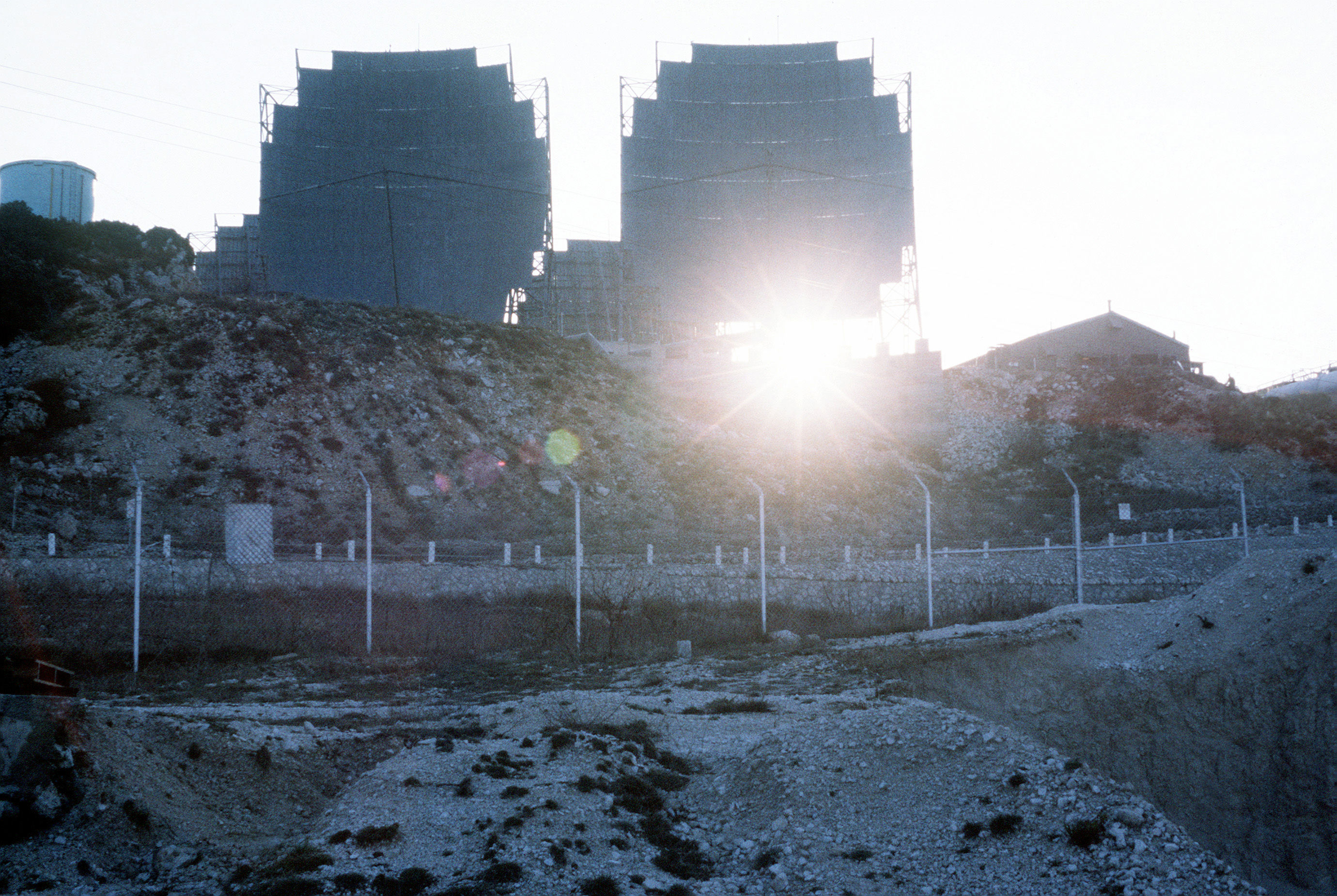 The rising sun outlines a Tropo antenna at a communication site above the island of Levkas.